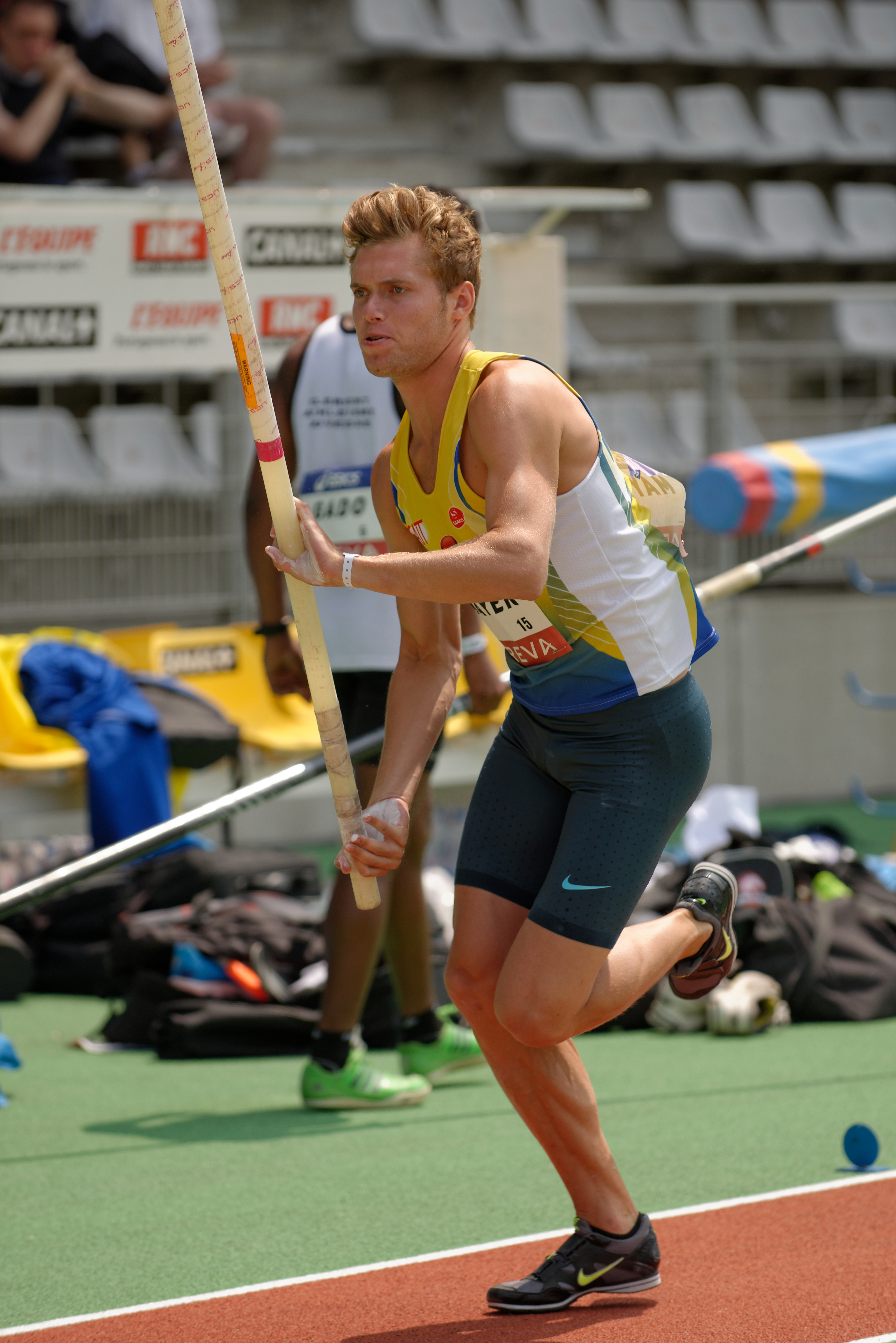 Kevin Mayer competes in the men's decathlon pole vault final during the French Athletics Championships 2013 at Stade Charléty in Paris, 13 July 2013.